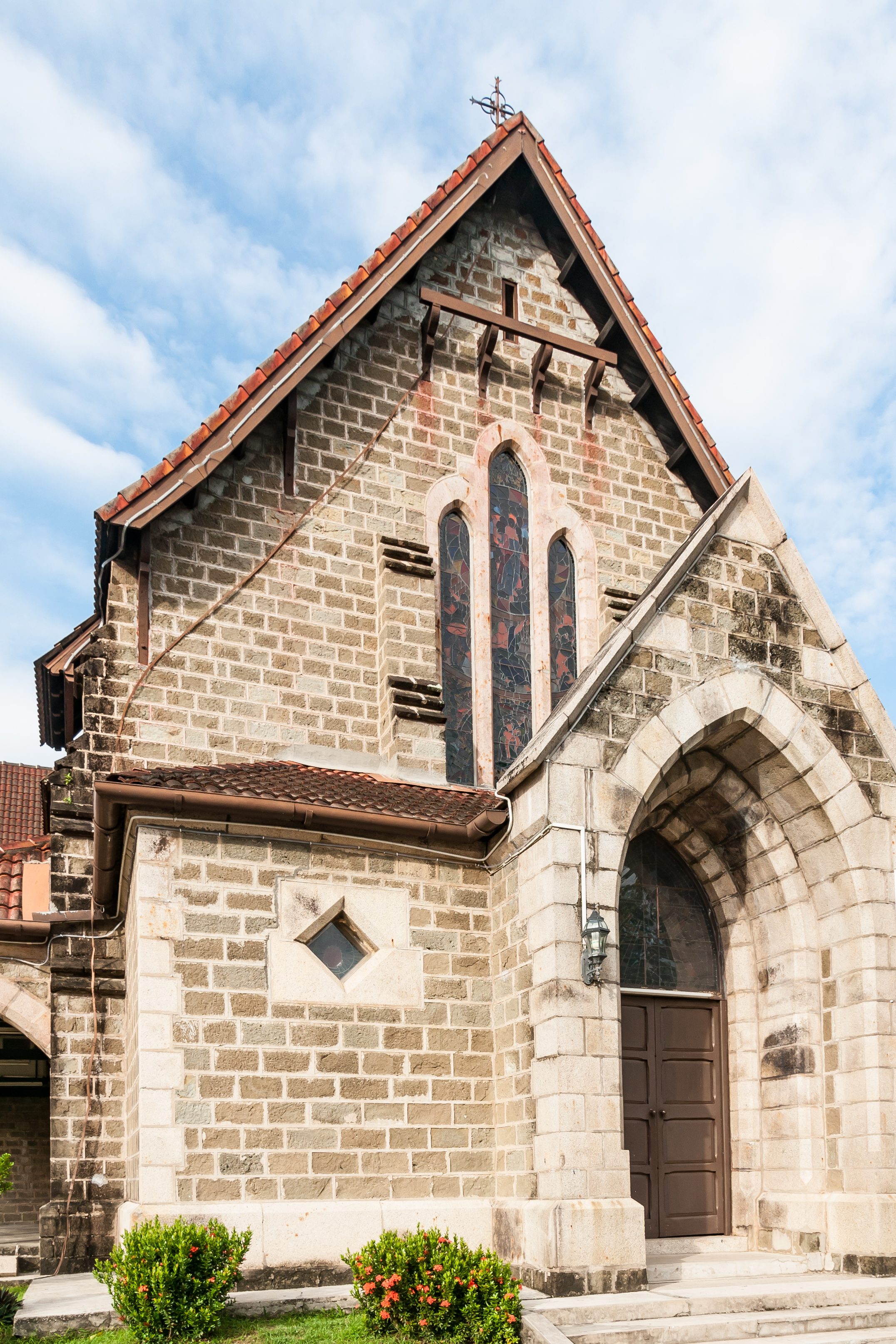 Sandakan, Sabah: Gereja St. Michael in Sandakan